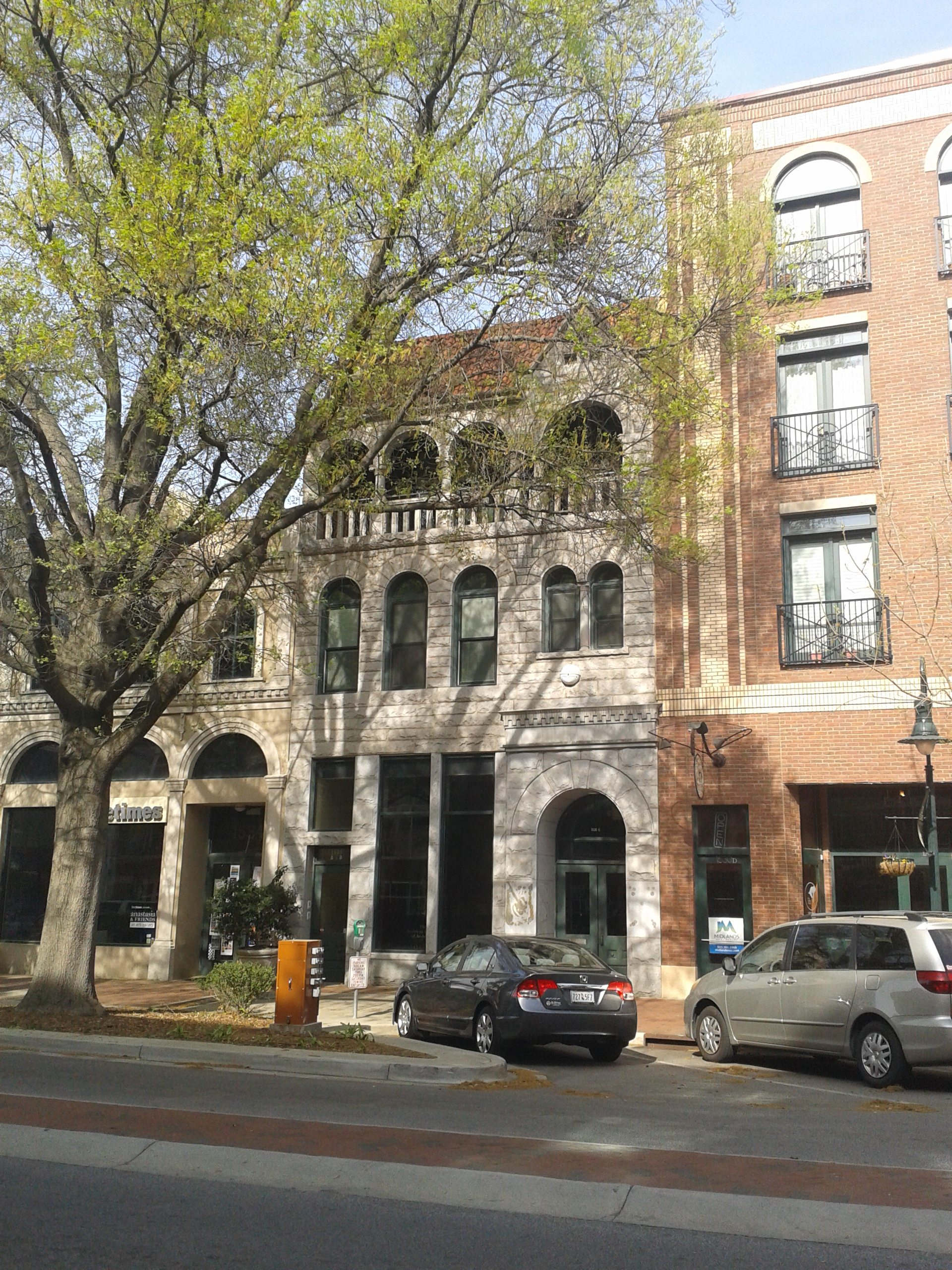 The former Canal Dime Savings Bank building in Columbia, South Carolina.